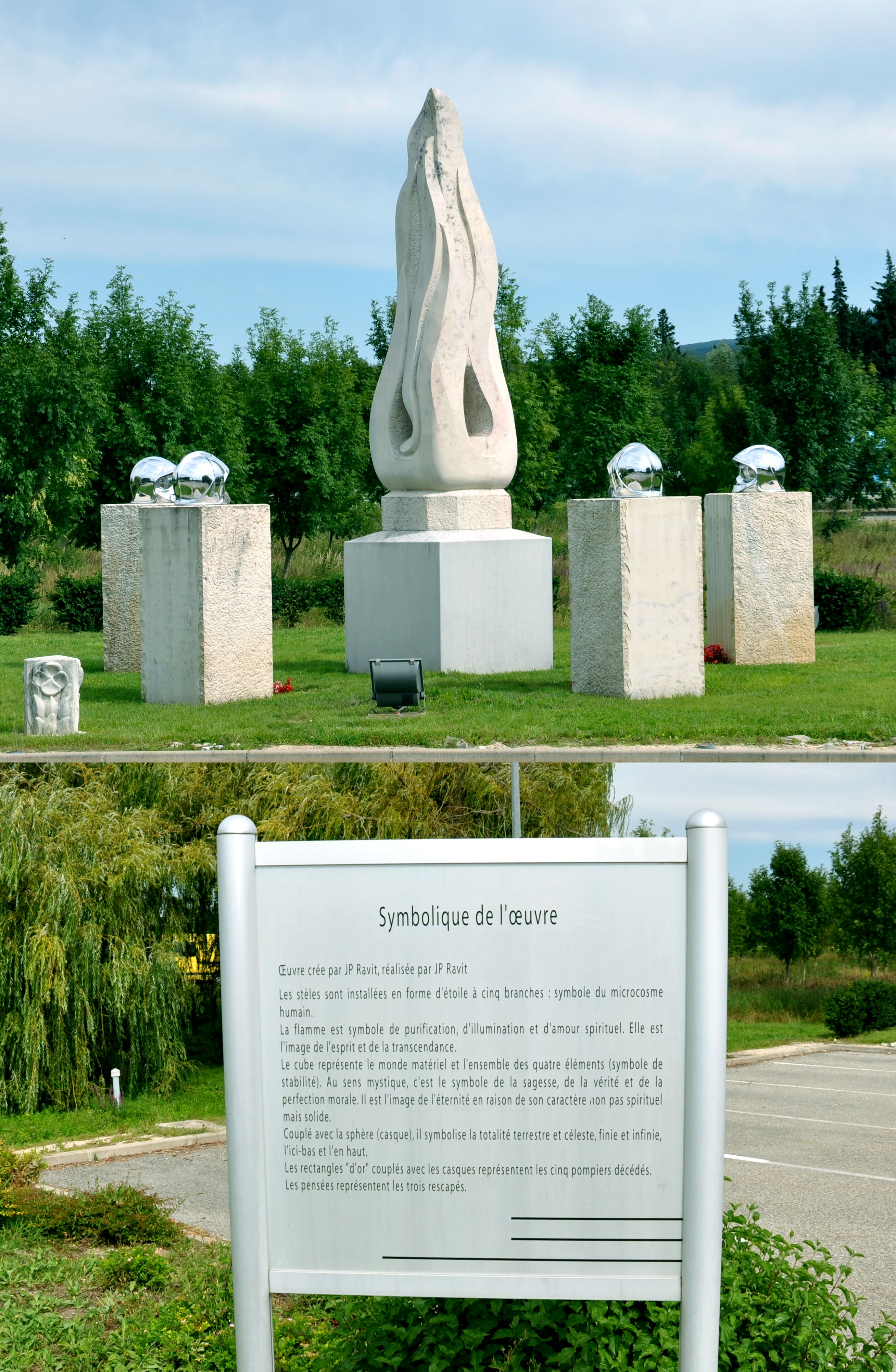 Loriol-sur-Drôme: Memorial for the firefighters from Loriol